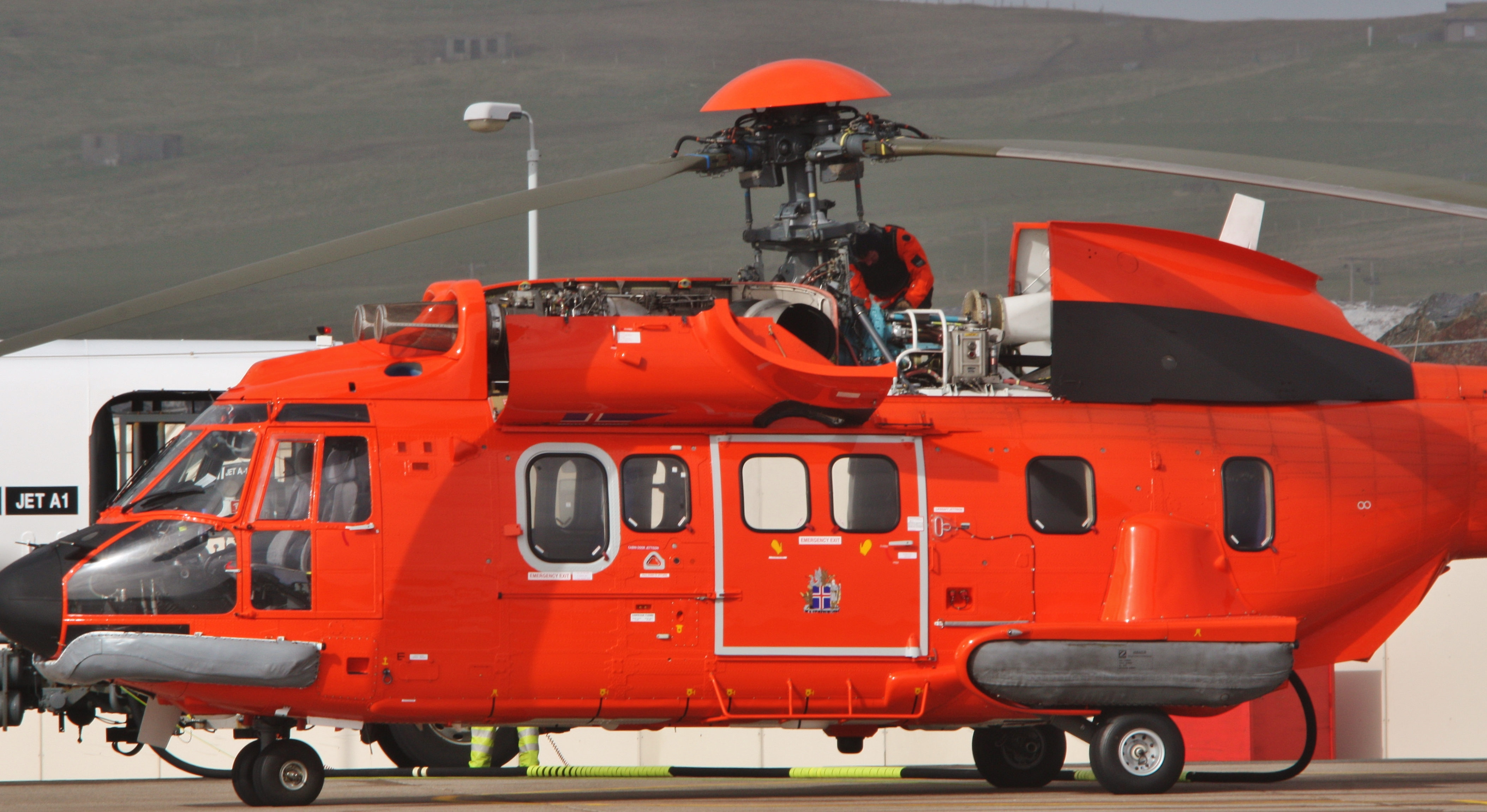 Some checks in the engine area